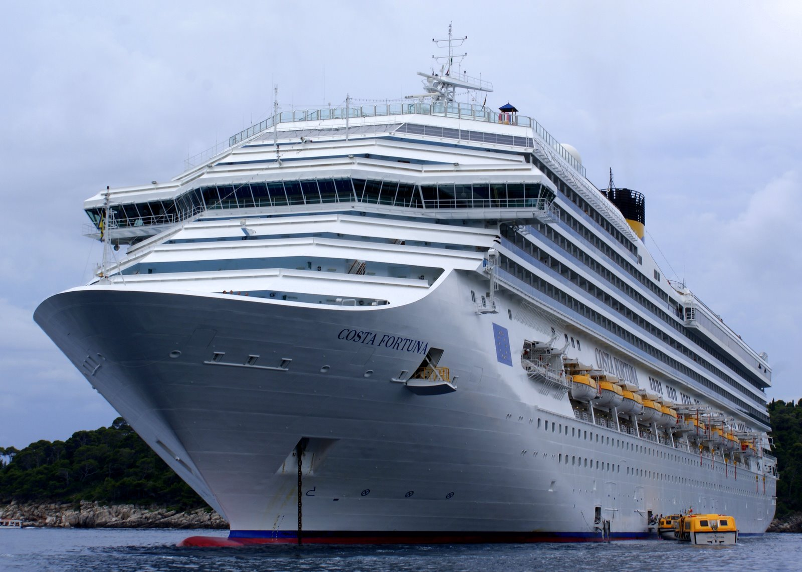 Costa Fortuna in Dubrovnik, summer 2009.